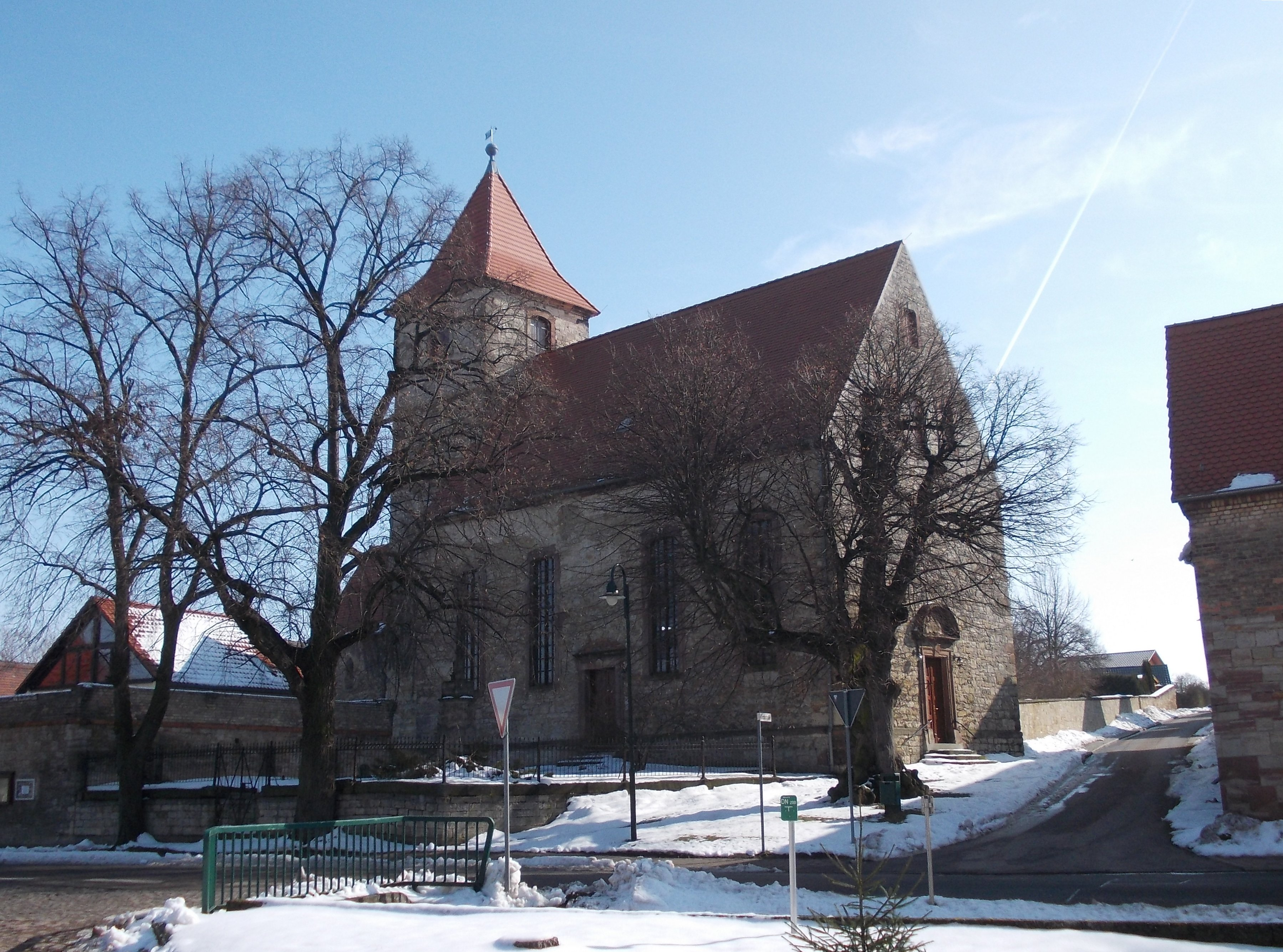 Göhrendorf church (Nemsdorf-Göhrendorf, district of Saalekreis, Saxony-Anhalt)